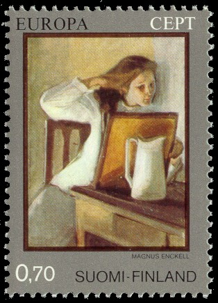 Postage stamp depicting a famous painting by the Finnish artist Magnus Enckell (Hiuksiansa suoriva tyttö), 1902